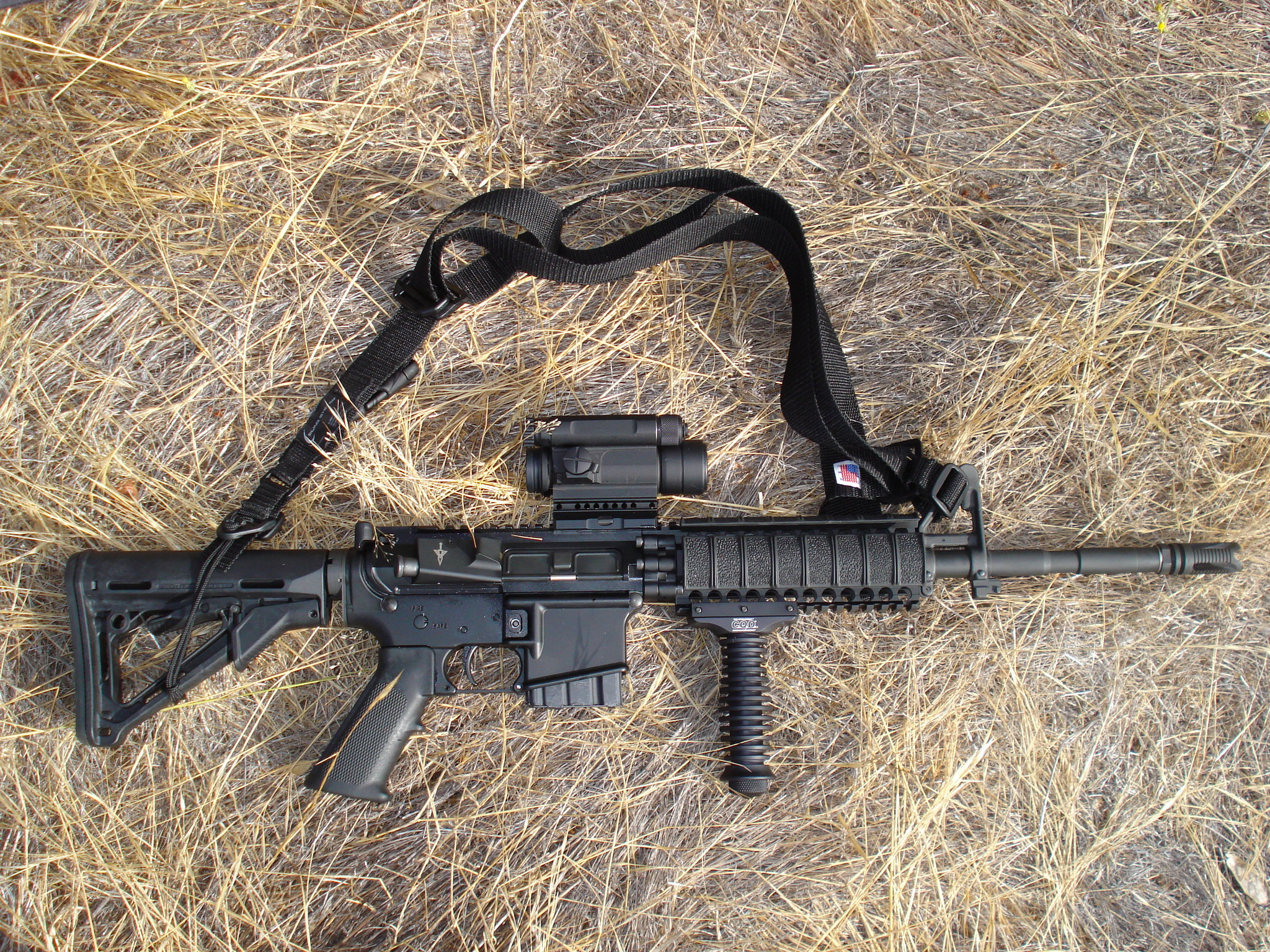 AR15_AimpointCompM4